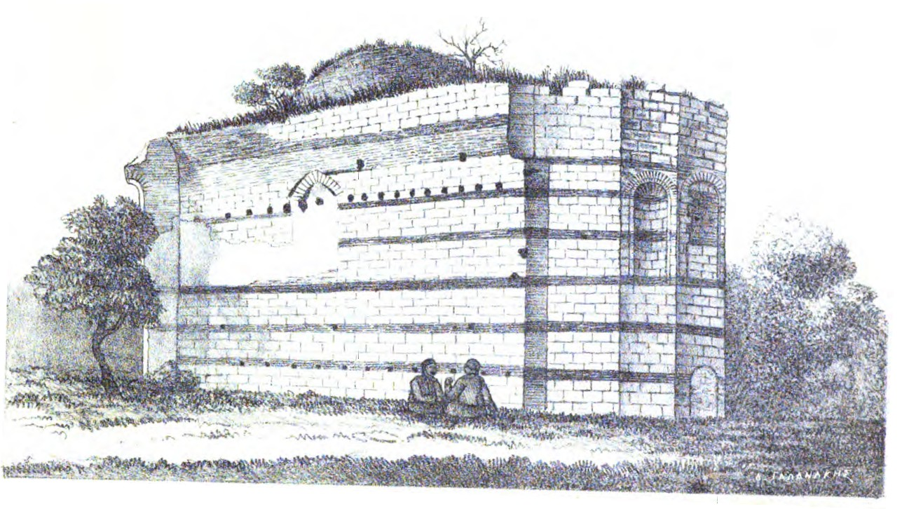 Byzantinai meletai topographikai (1877) Author: Paspatēs, Alexandros Geōrgiou, 1814-1891. [from old catalog] Subject: Inscriptions, Greek Year: 1877 Possible copyright status: NOT_IN_COPYRIGHT Language: English Digitizing sponsor: Google Book contributor: Oxford University Collection: europeanlibraries